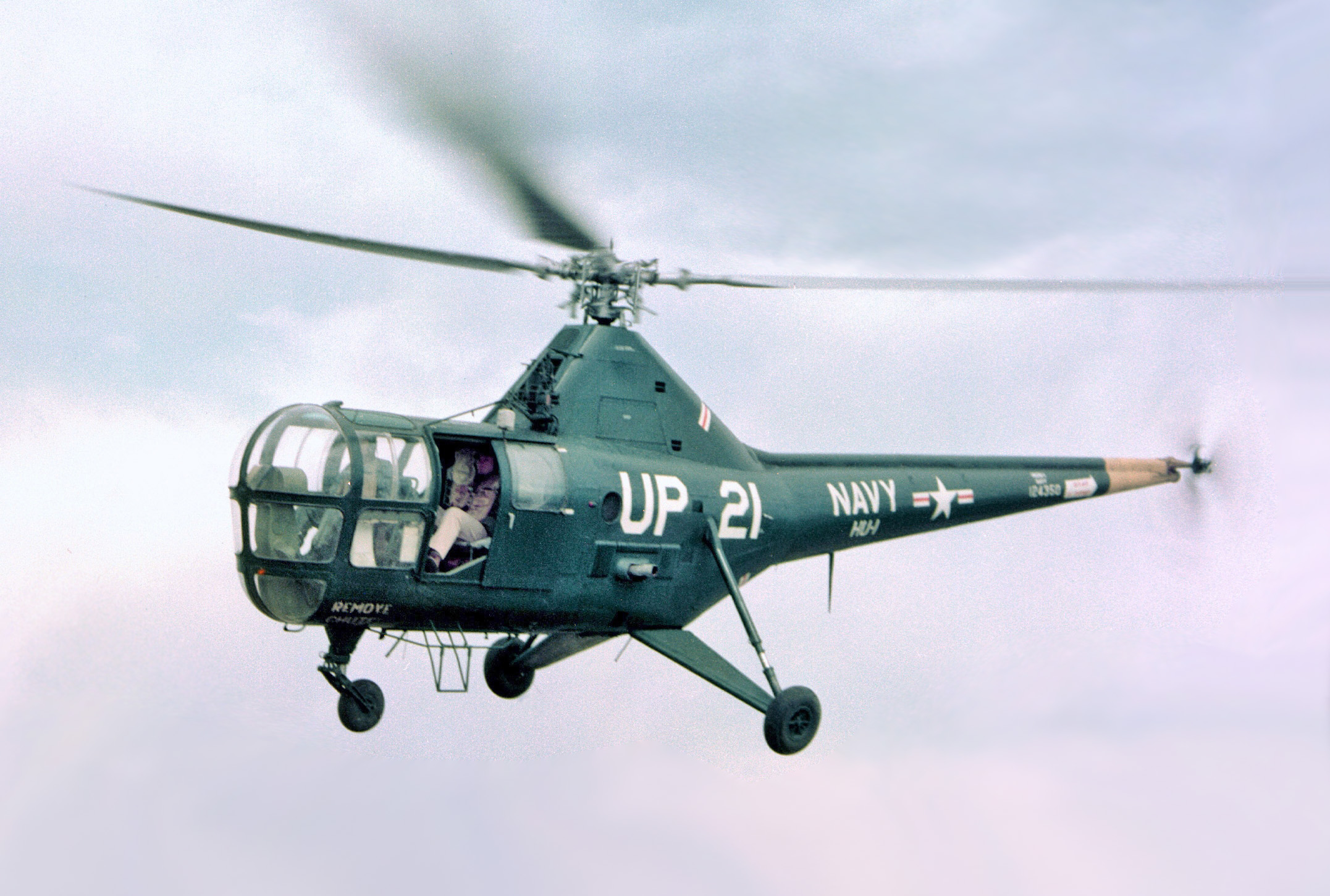 Life aboard a battleship during a recent tour of duty in the Far East. Permission to take off is given to the ship's helicopter during the operation aboard the USS NEW JERSEY (BB-62). NARA FILE #: 80-GK-16320